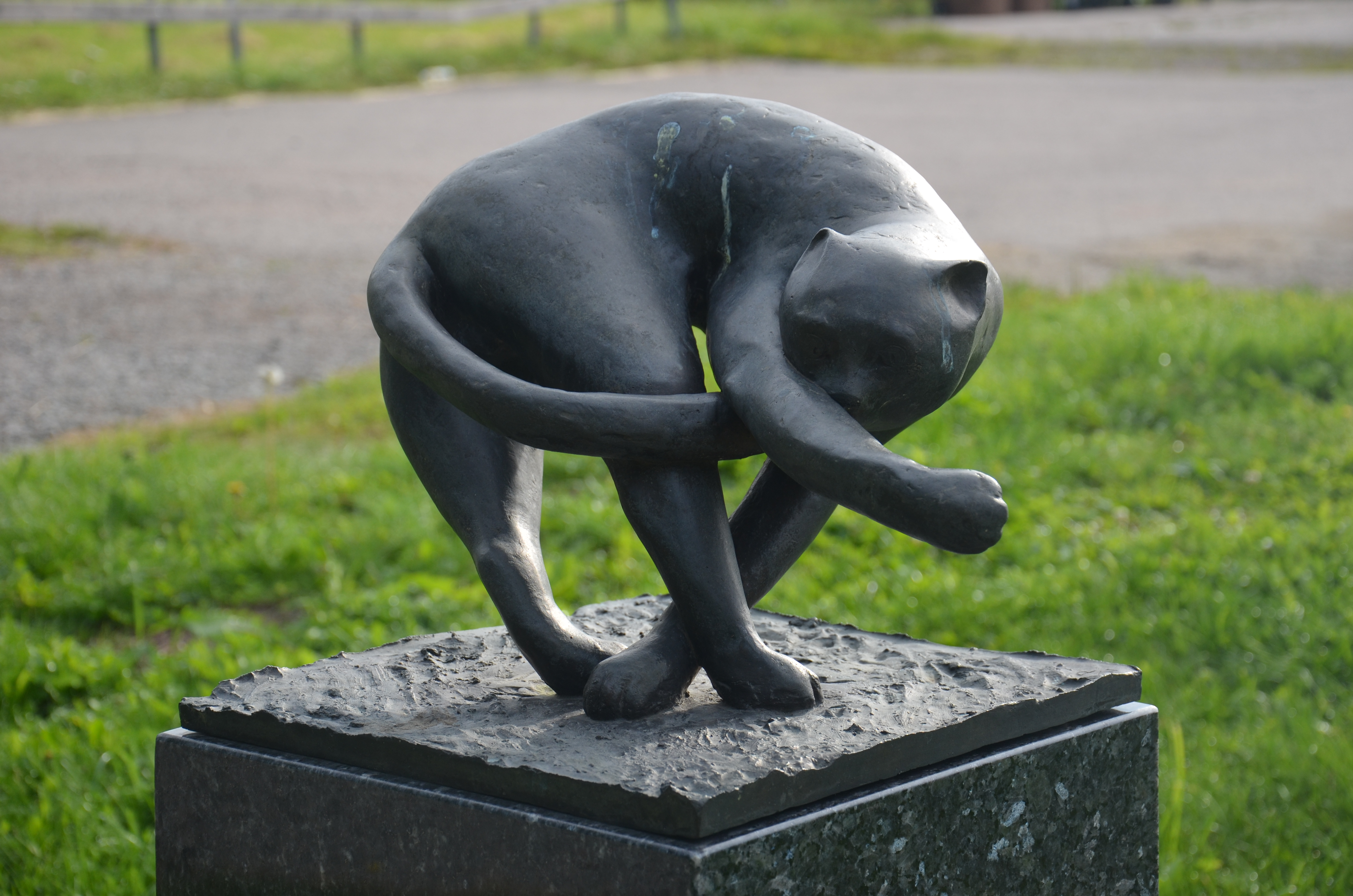 Sonja Pettersson´s Kattknut, Sculpture Park "Tant Fridas stig", Heby, Sweden